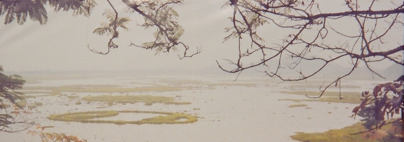 Another view of Loktak lake